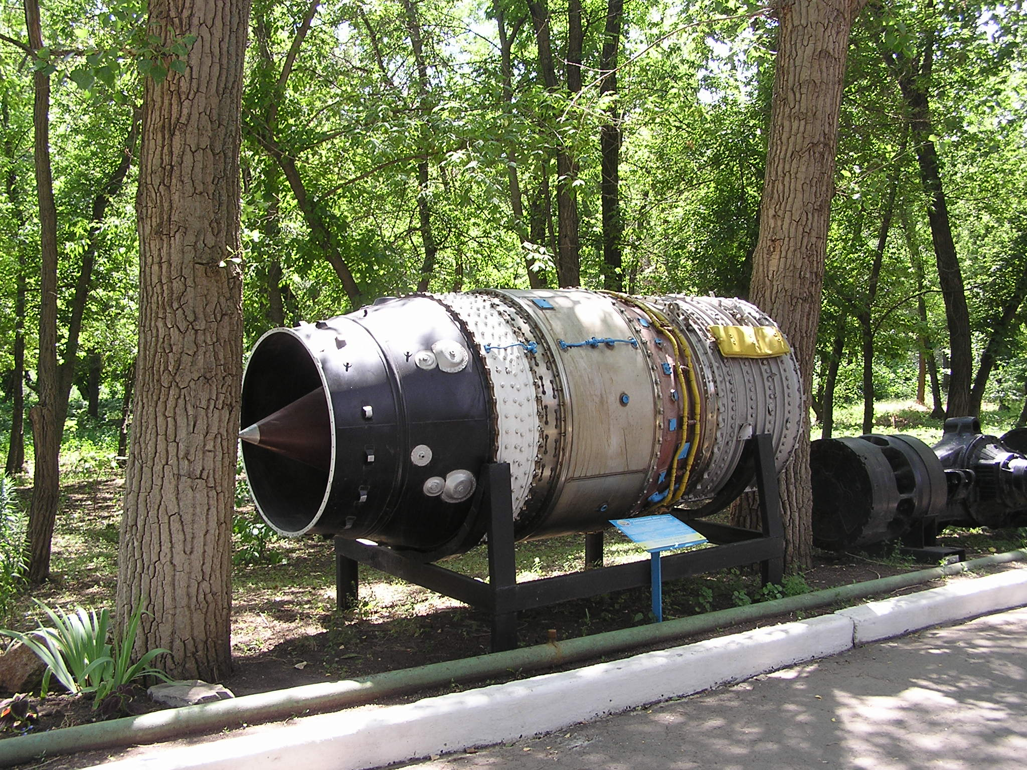 Jet engine RD-3M of snow blower Buran, for blowing snow off railroads, at Museum of Dokuchaevsk flux-dolomite сombined plant